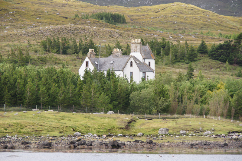 Ardvourlie Castle from Scaladale